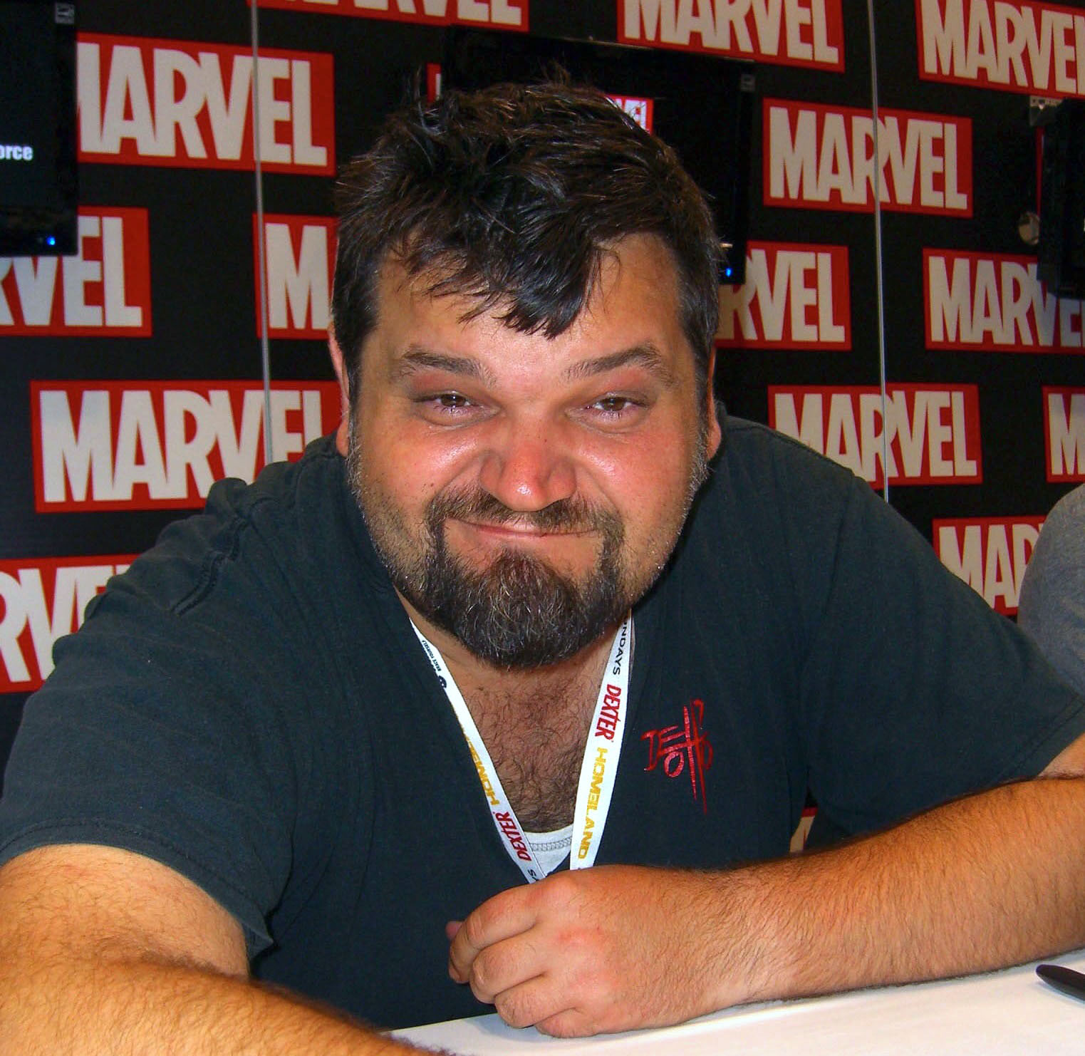 Comics creator Esad Ribic on Day 2 of the 2012 New York Comic Con, Friday October 12, 2012 at the Jacob K. Javits Convention Center in Manhattan. This photo was created by Luigi Novi. It is not in the public domain, and use of this file outside of the licensing terms is a copyright violation.